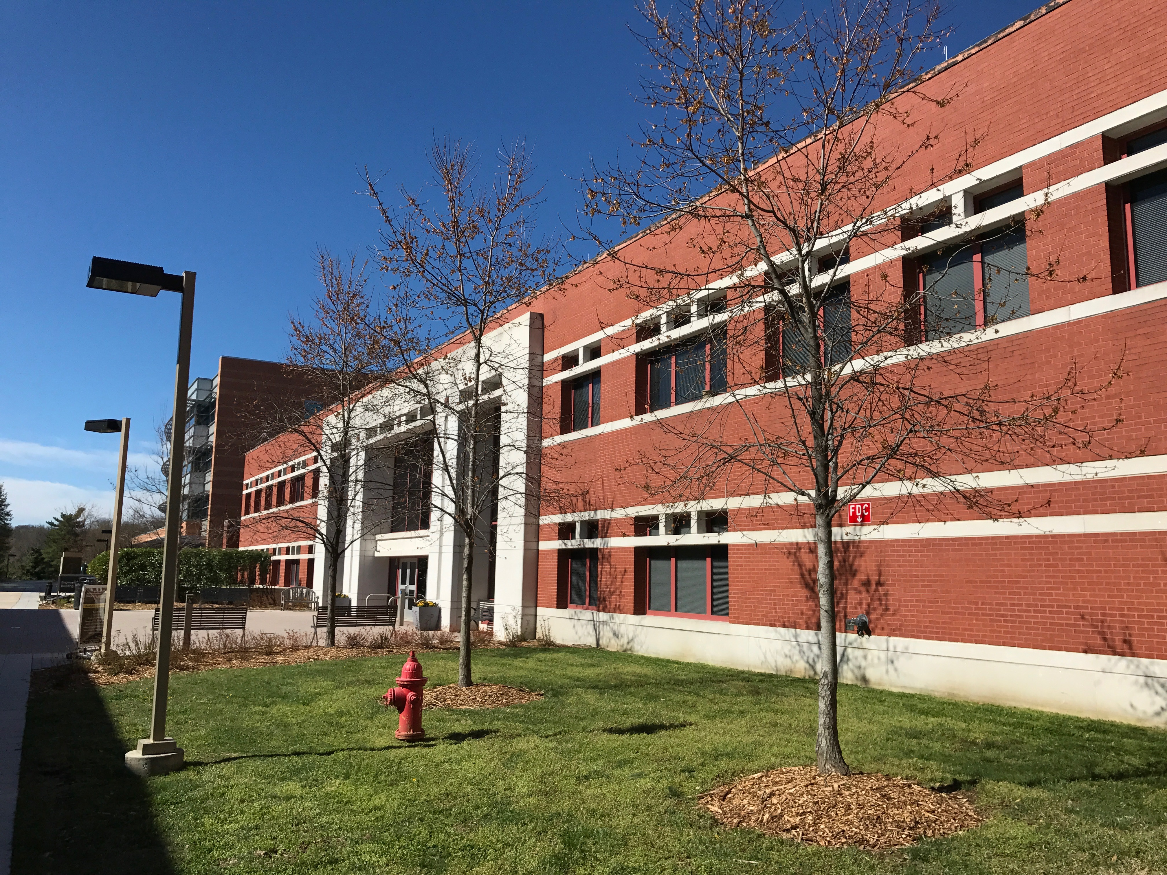 Photograph by Eli Pousson, 2017 April 5.